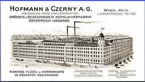 Hoffman & Czerny A. G. Factory